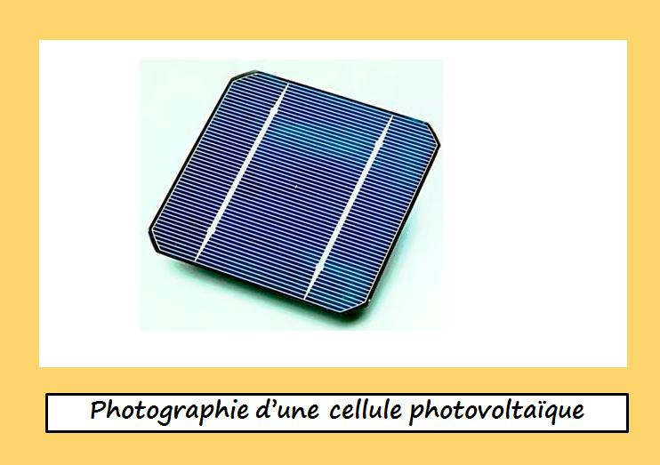 Department of Energy Retrieved Aug. 17, 2005.